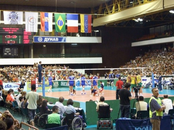 Interior of SPENS during Volleyball World League game Serbia vs. Brazil